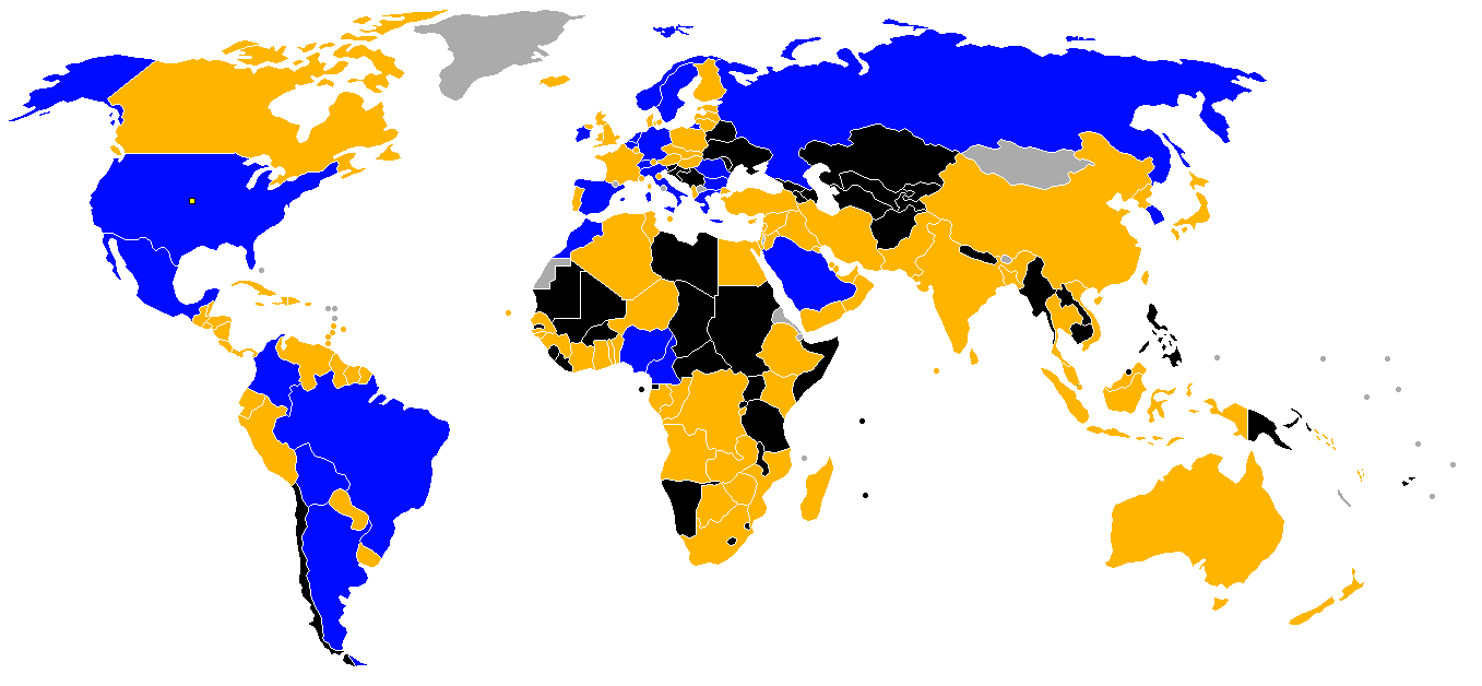 Status of countries with respect to 1994 FIFA World Cup: Qualified for World Cup finals Failed to qualify for World Cup finals Did not enter World Cup Not an associate member of FIFA